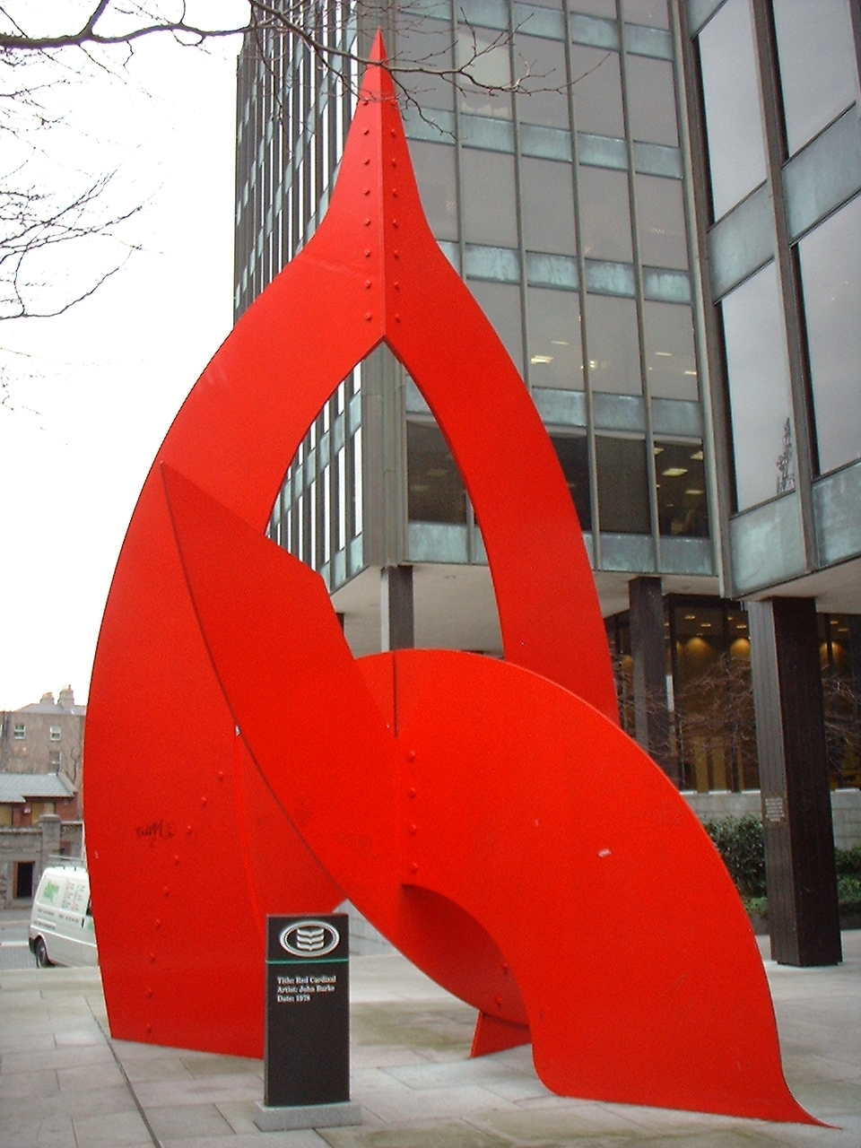 Red Cardinal, a sculpture by John Burke (artist), created in 1978. Located in the grounds of Miesian Plaza, the former Bank of Ireland Headquarters on Lower Baggot St., Dublin, Ireland